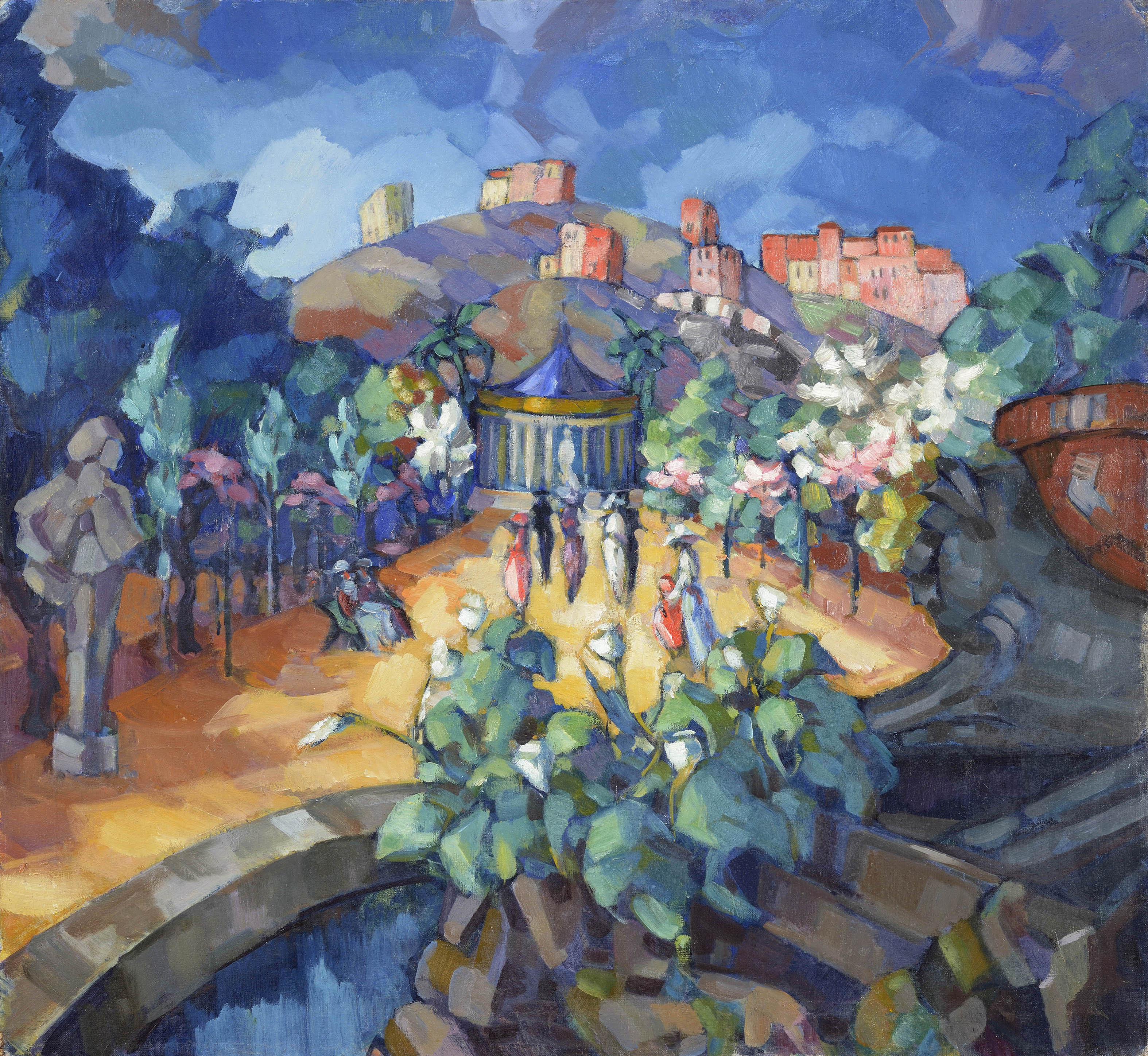 Konrad Mägi "Italian Landscape. Rome"(1922–1923) oil/canvas, 84.7 x 90.5 cm.